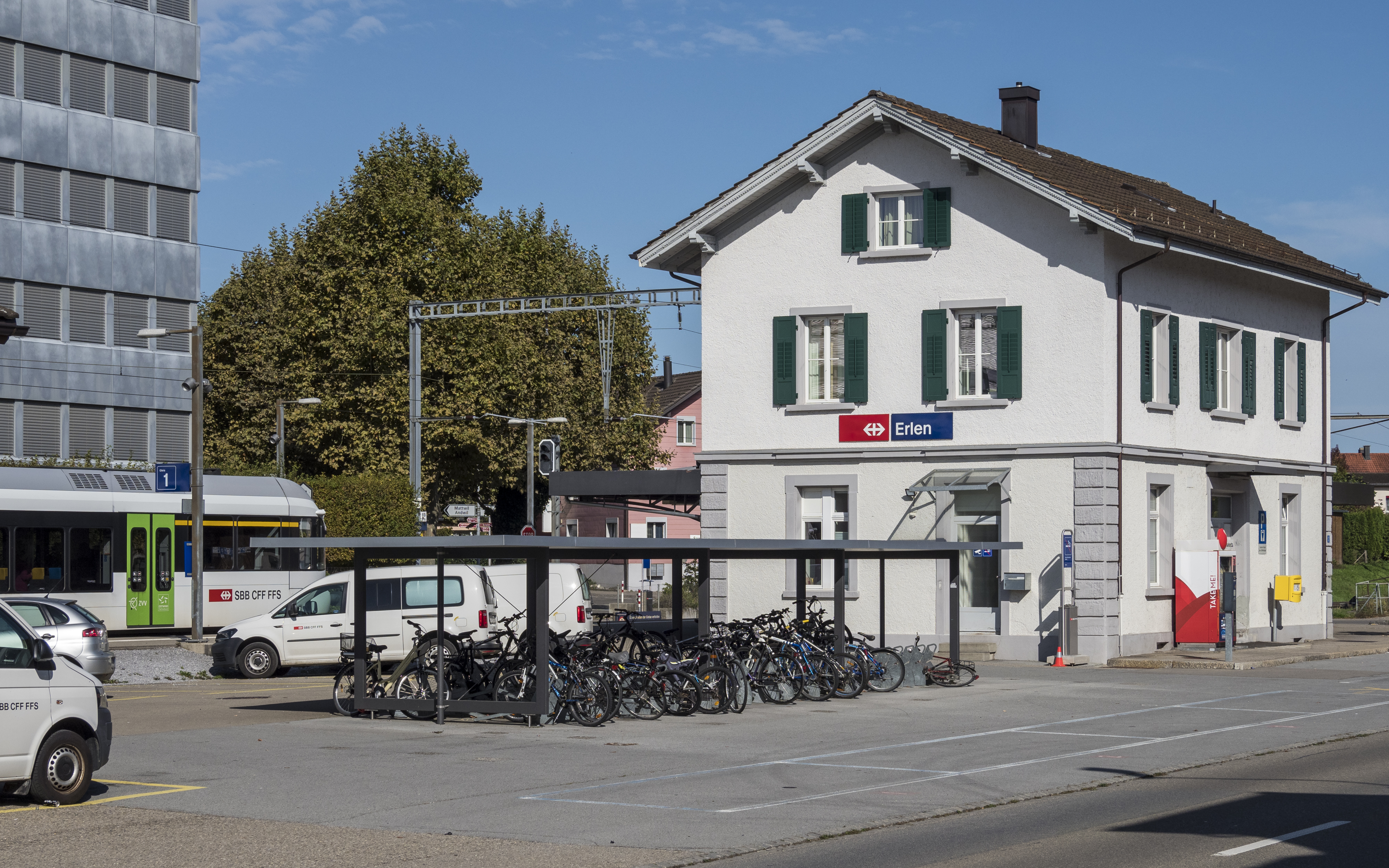 Erlen railway station at the Romanshorn - Weinfelden - Zurich railway line, Switzerland.